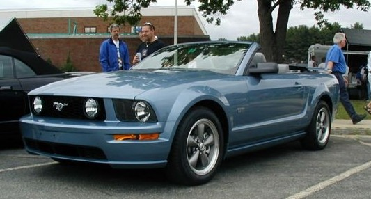 2005 Ford Mustang GT Convertible